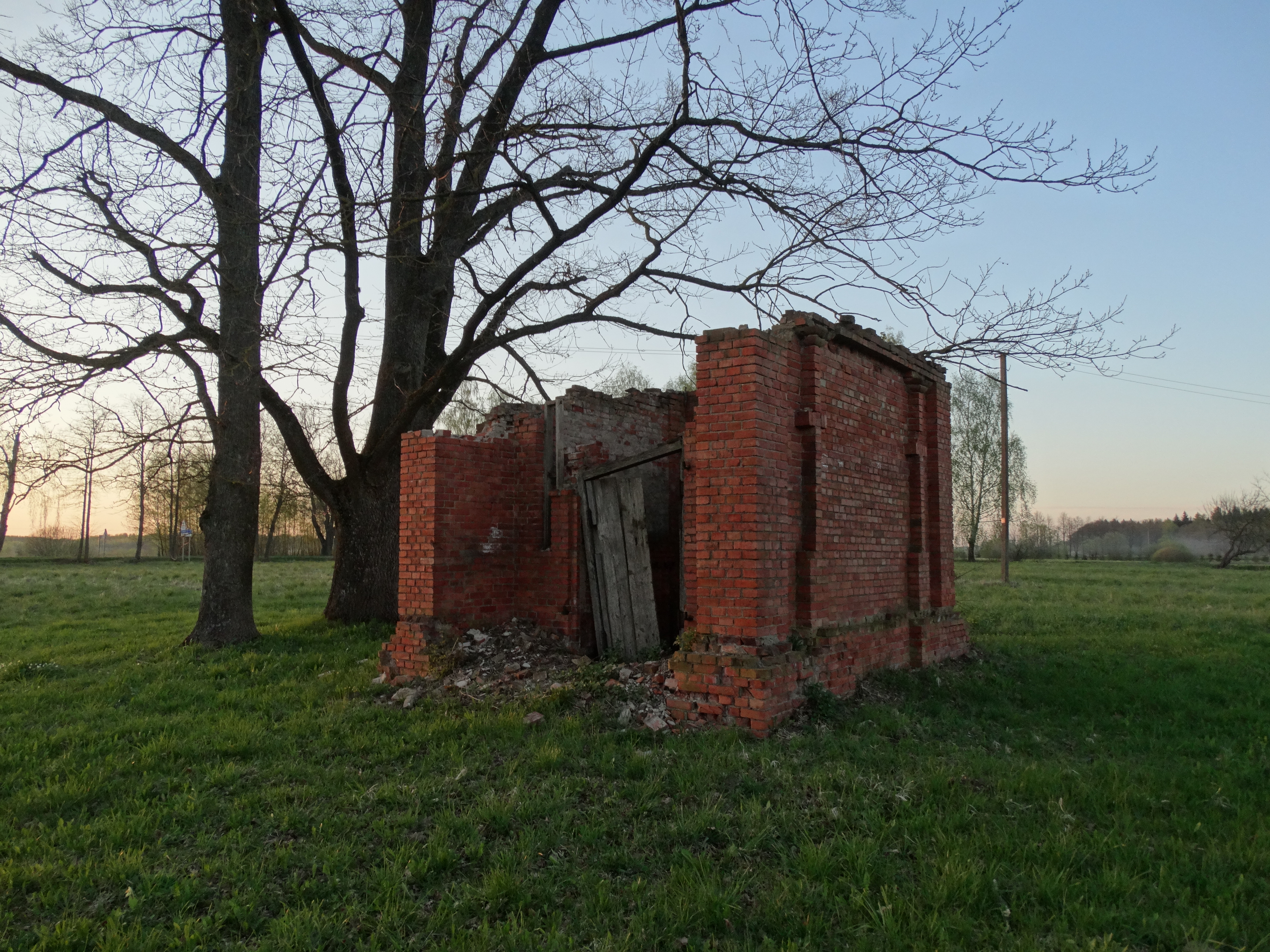 Chapel, Naujapilis, Širvintos District, Lithuania